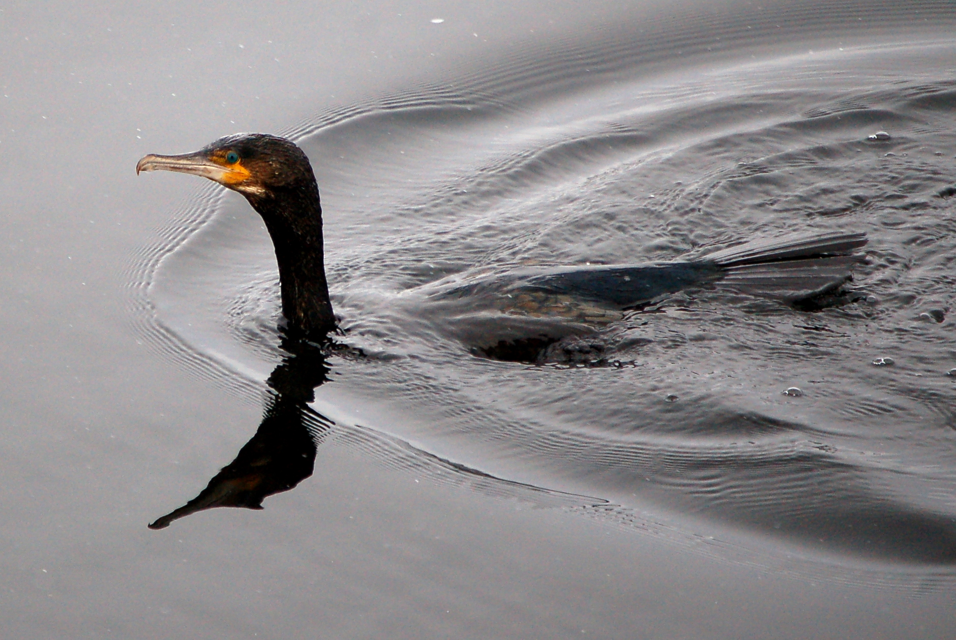 The Great Cormorant (Phalacrocorax carbo)